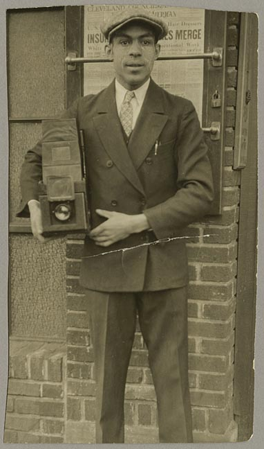 Paul Henderson (1899-1988), photojournalist for the Baltimore Afro-American newspaper from 1929 through circa 1960.